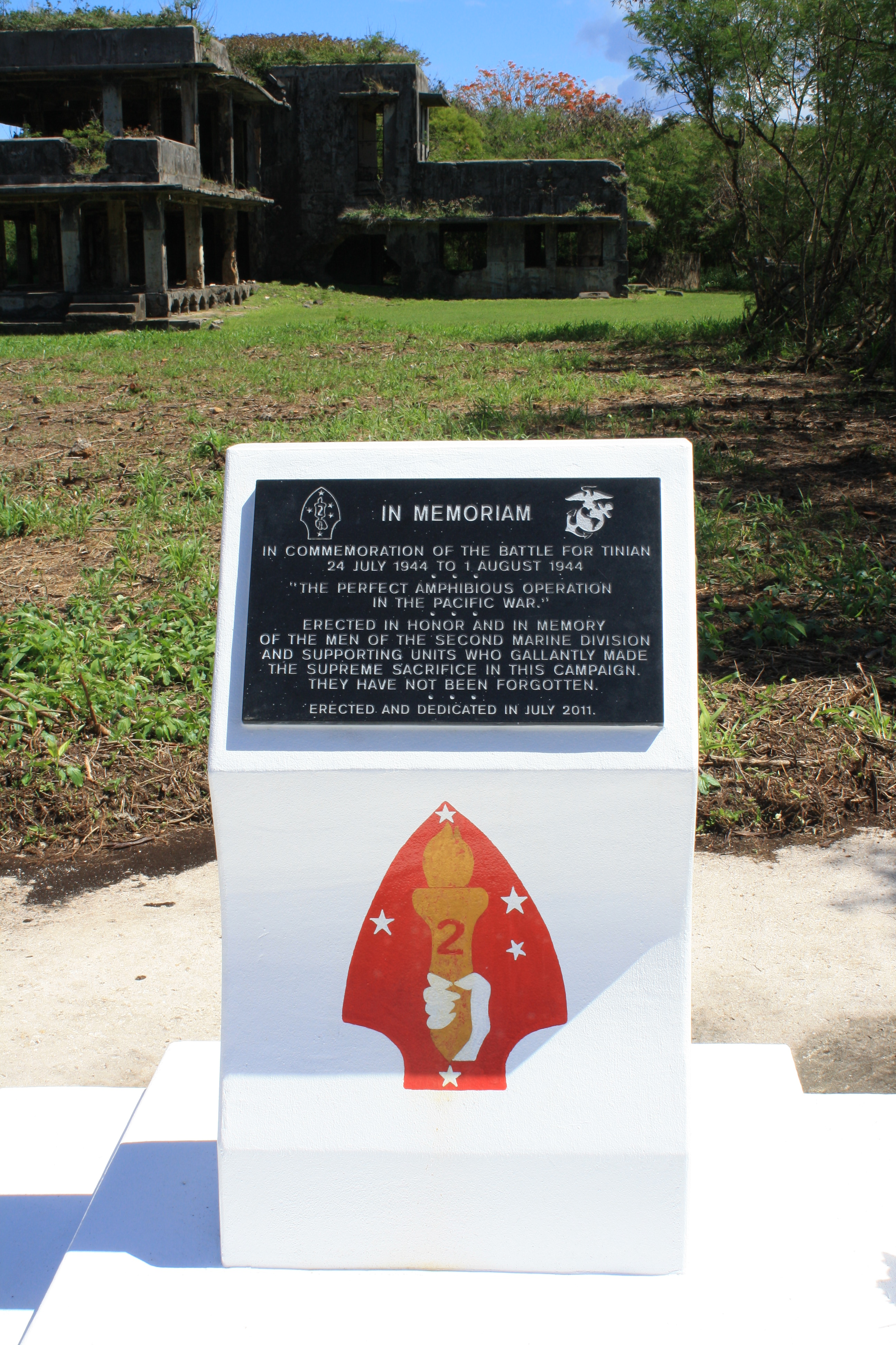 2nd Marine Division Memorial, Tinian Island